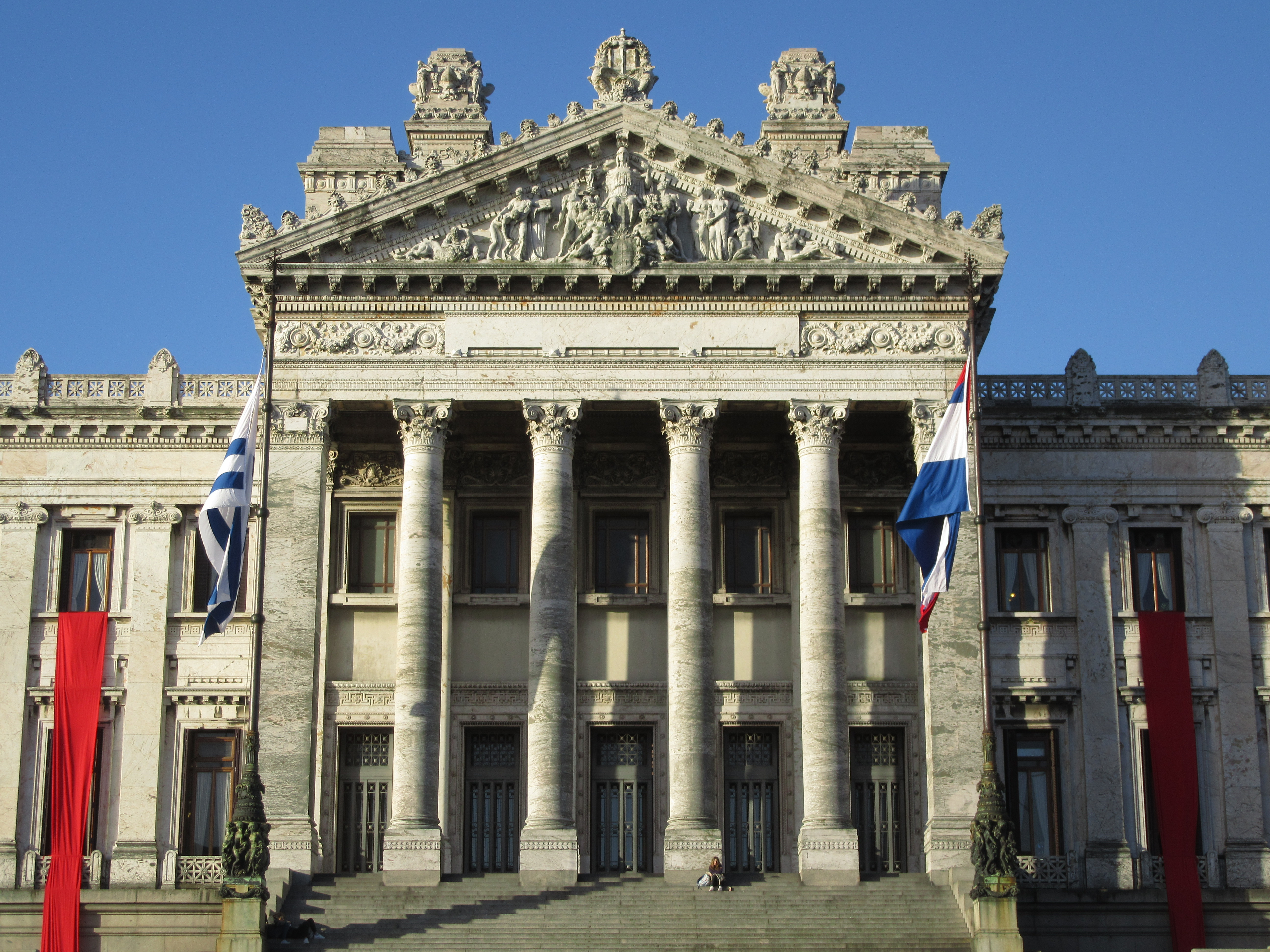 Montevideo